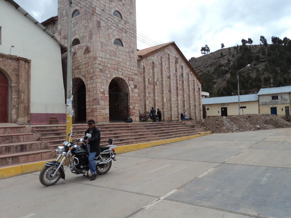 Vista del Templo de San Martín de Tours